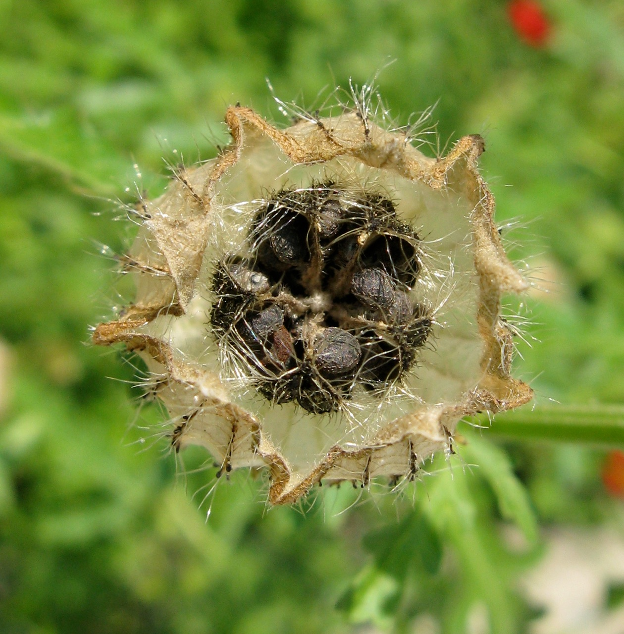 Fruit